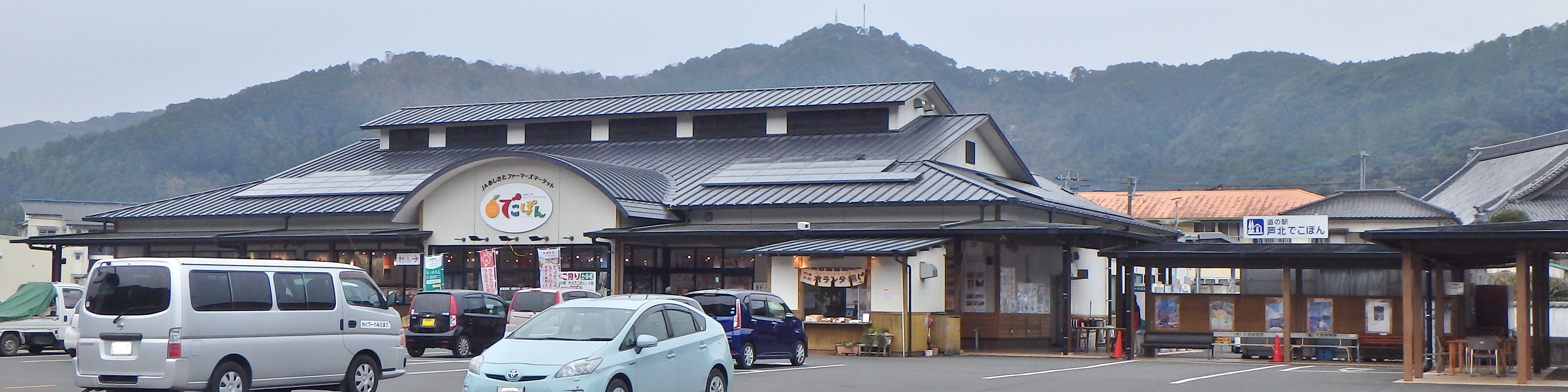 Roadside station Ashikita Dekopon,Kumamoto prefecture,Japan